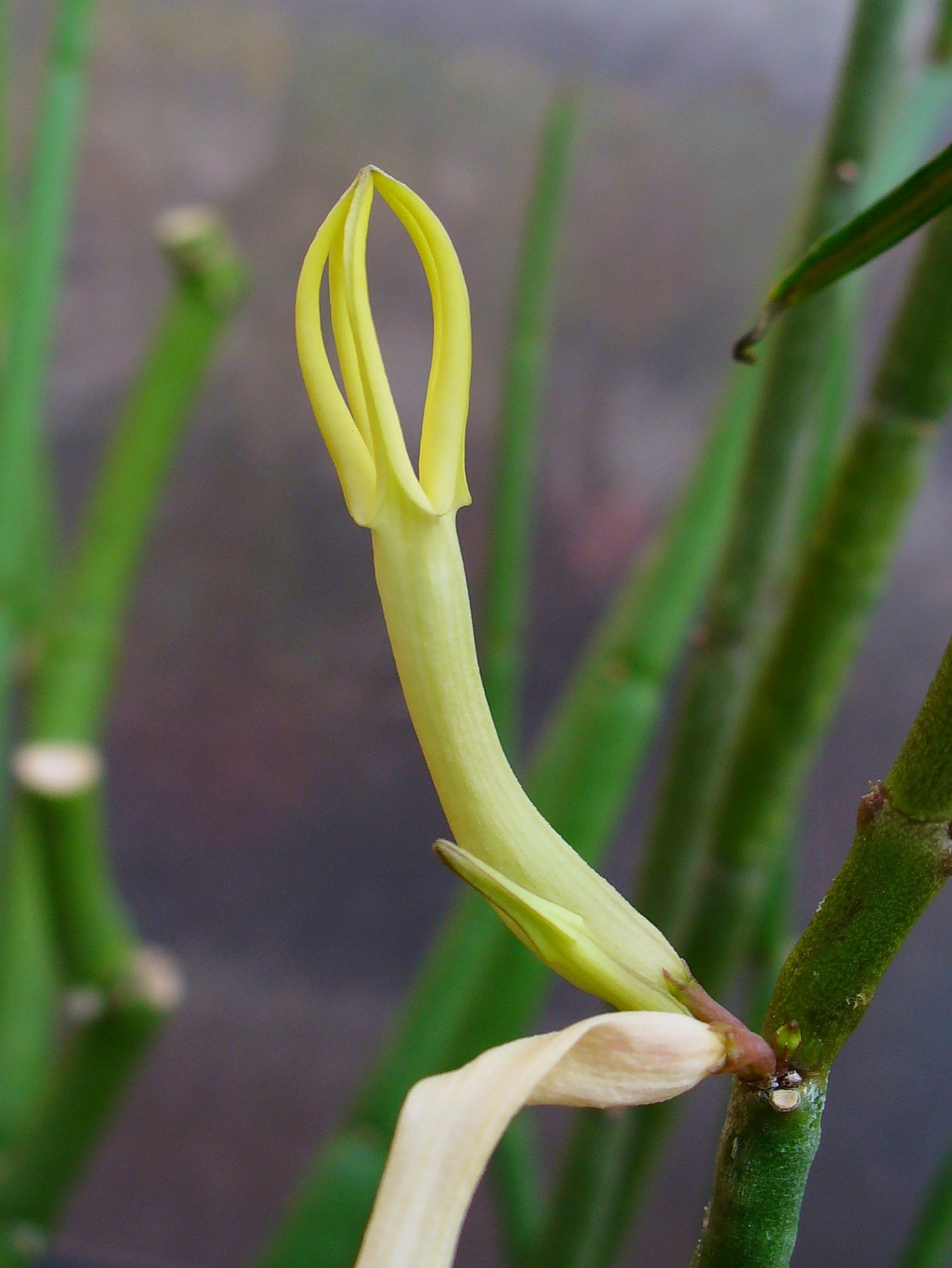 Ceropegia dichotoma, Apocyanaceae, Cardoncillo, flower; Botanical Garden KIT, Karlsruhe, Germany.